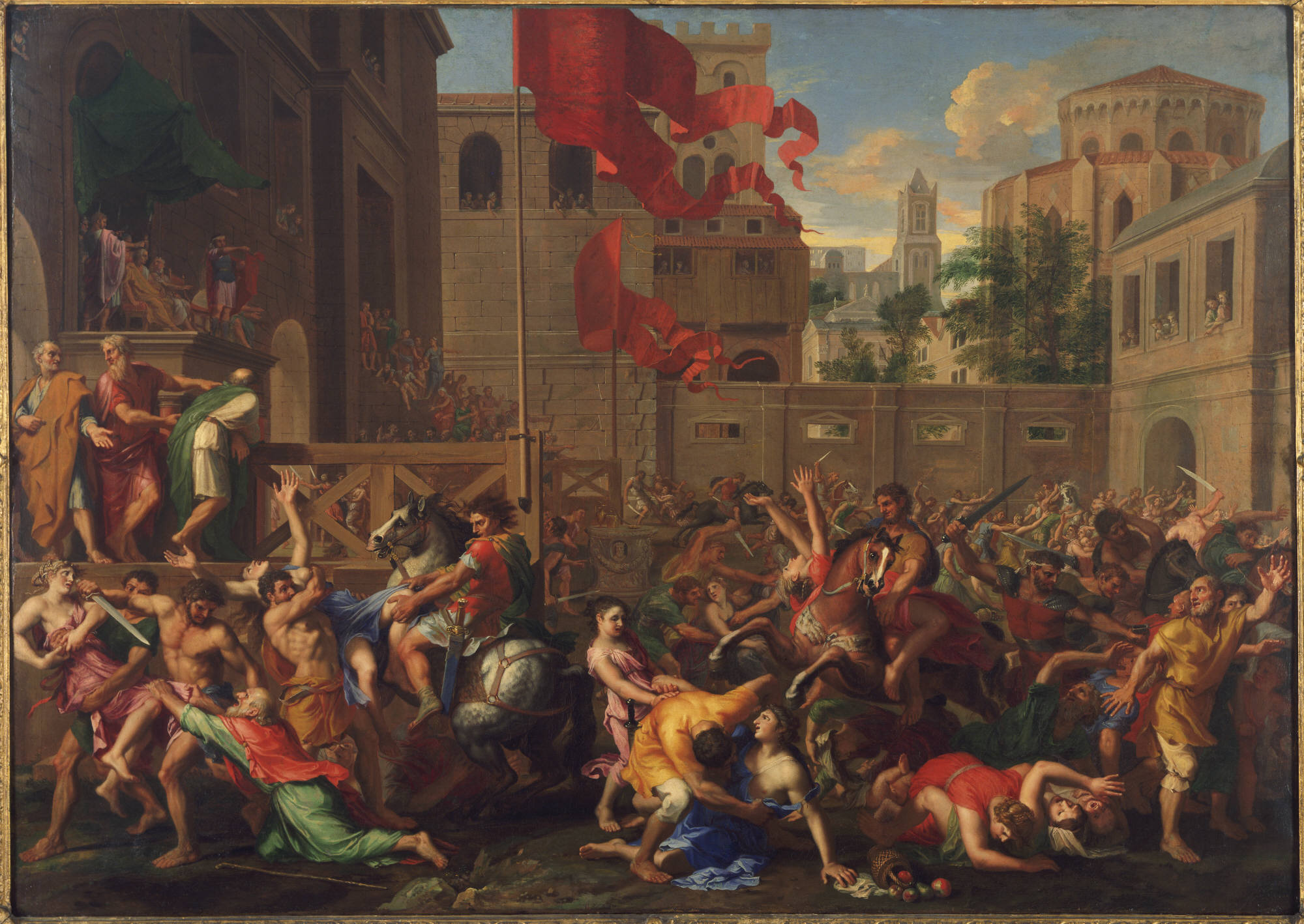 Although born in Lyons, Stella received his artistic formation during his eighteen years in Italy (1616–34), where he and another French expatriate artist, Nicolas Poussin, became close friends. Like many painters of the time, Stella and Poussin interpreted scenes from ancient Roman history. The Rape of the Sabines was one such subject. Seeking wives in order to establish families, the first Romans invited the neighboring Sabine people to a festival. At a signal from their leader, Romulus, the Romans abducted the young women and wed them. Poussin depicted this foundation myth as well, in two paintings (Louvre and Metropolitan Museum of Art). The painters’ works were similar enough that after Stella died a number of his canvases, including this one, were wrongly attributed to the more famous artist, Poussin.